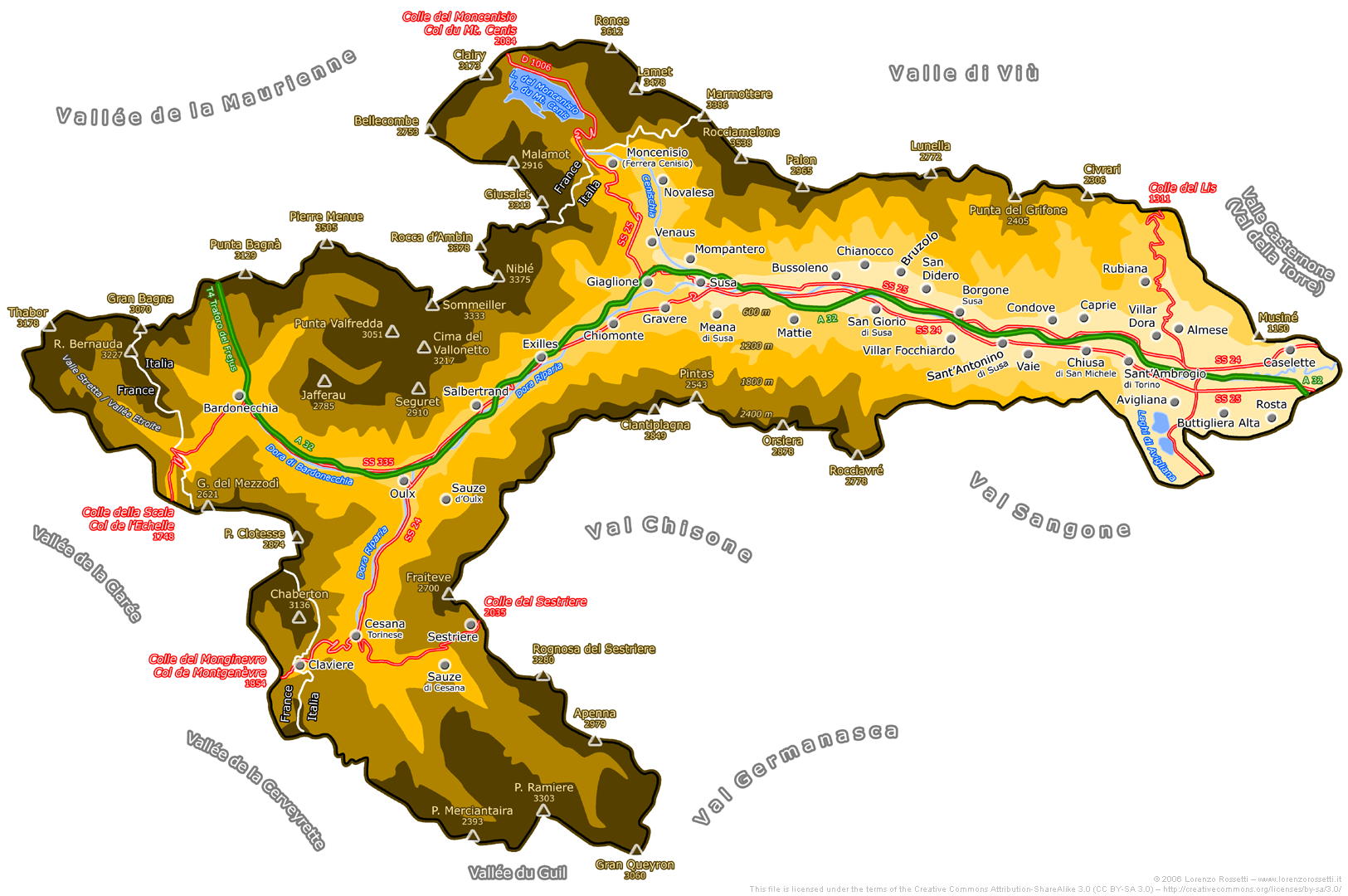 Map of Susa Valley, Piemonte, Italy